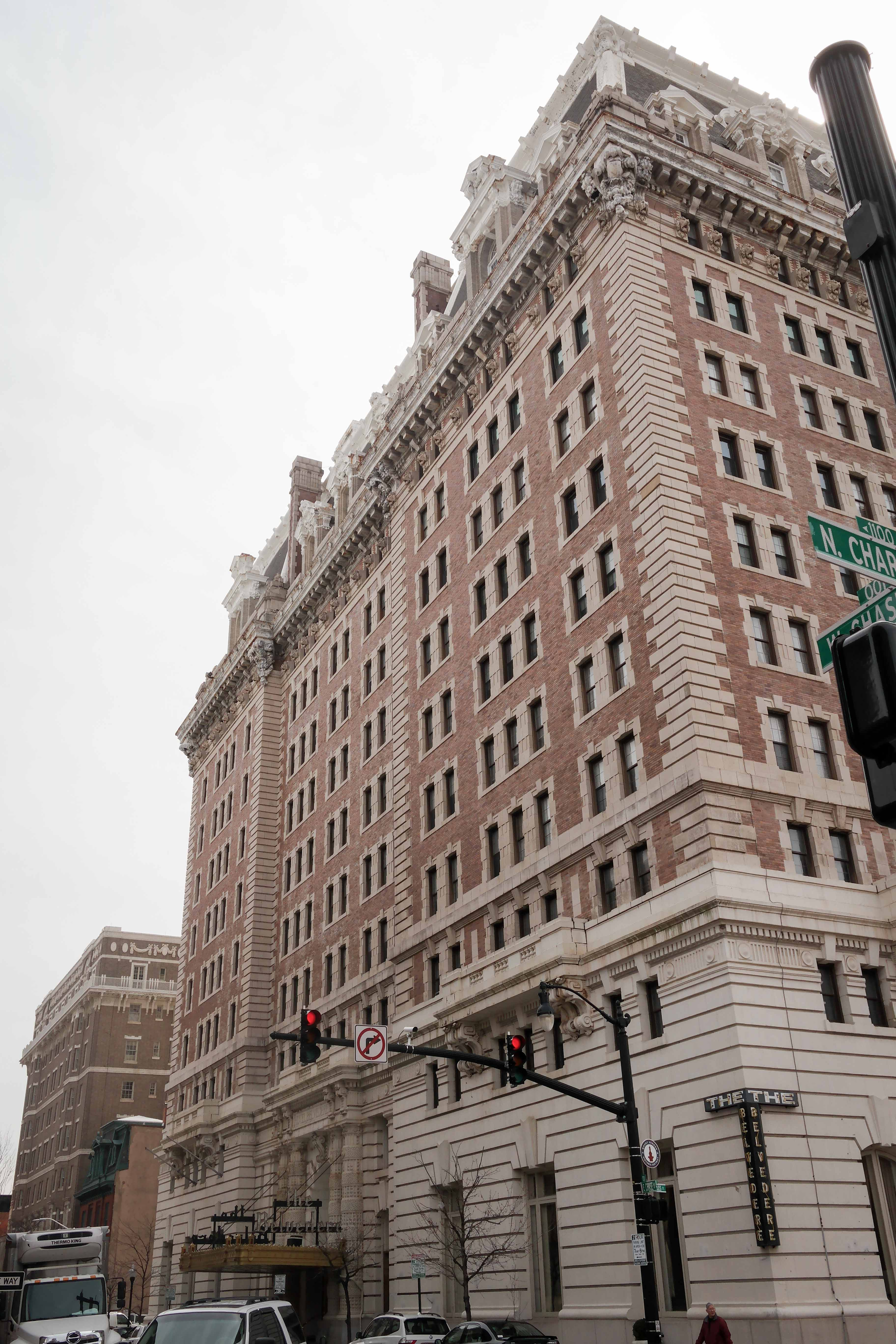 A view of the historic Belvedere Hotel in Baltimore